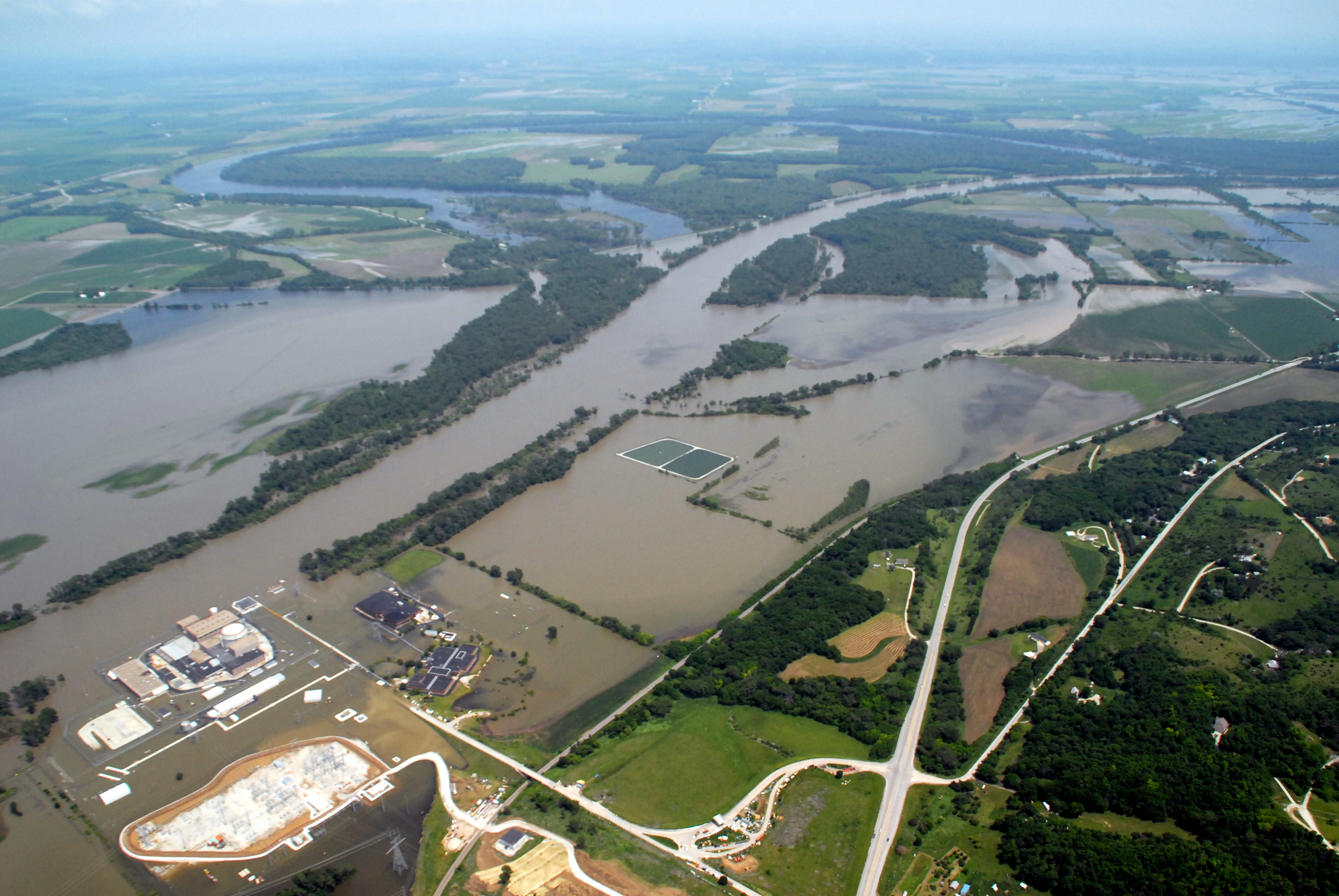 Corps of Engineers photo of the Fort Calhoun Nuclear Power Plant in the foreground and the DeSoto National Wildlife Refuge in the upper left during the 2011 Missouri River Floods on June 20, 2011.